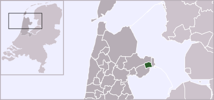 Locator map of Dutch municipalities in Noord-Holland (LocatieStedeBroec.png)